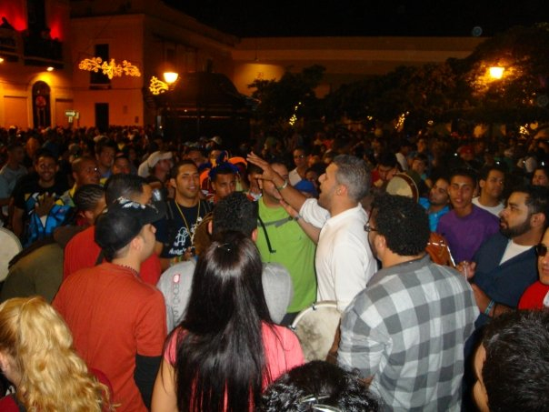 View of San Sebastián Street